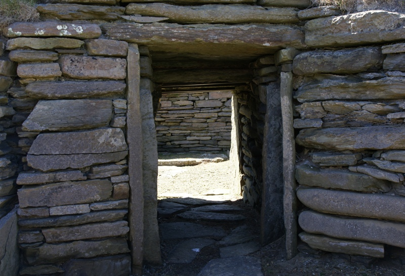 Knap of Howar, Papa Westray, Orkney, Scotland. Passage from house 2 to house 1.